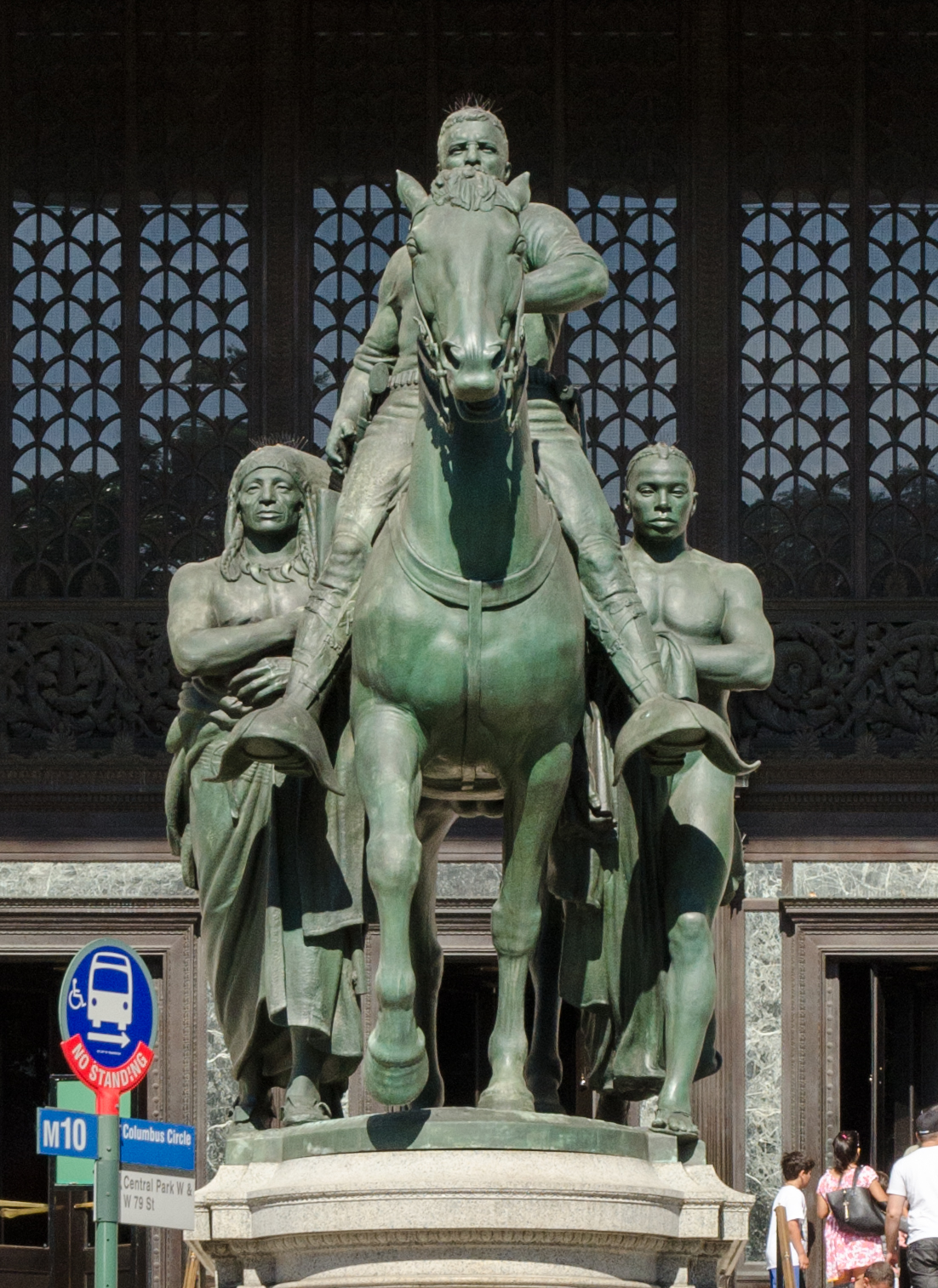 American Museum of Natural History